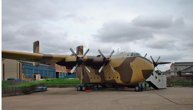 Beverley This photo of the last surviving Blackburn Beverley was taken at the Museum of Army Transport (now closed) in Flemingate, Beverley, East Riding of Yorkshire, England.The aircraft has since been moved to Fort Paull near Hull.